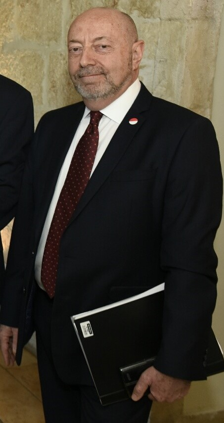 Meeting with deputy foreign minister of Israel Tzipi Hotovely Sven Mikser visit to Israel, March 2017.